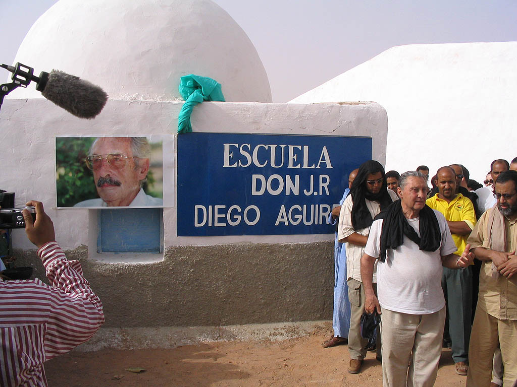 Inauguration of the "Jose Ramon Diego Aguirre" (Spanish colonel, historian and defender of the Sahrawi people) School — in Bir Lehlou, Western Sahara (May 20, 2005)